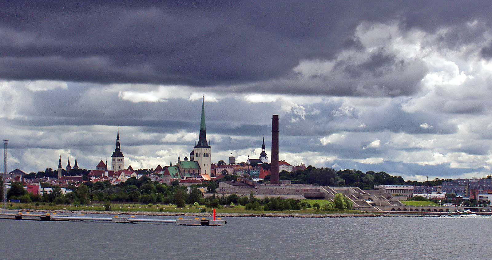 port of Tallinn (Estonia)